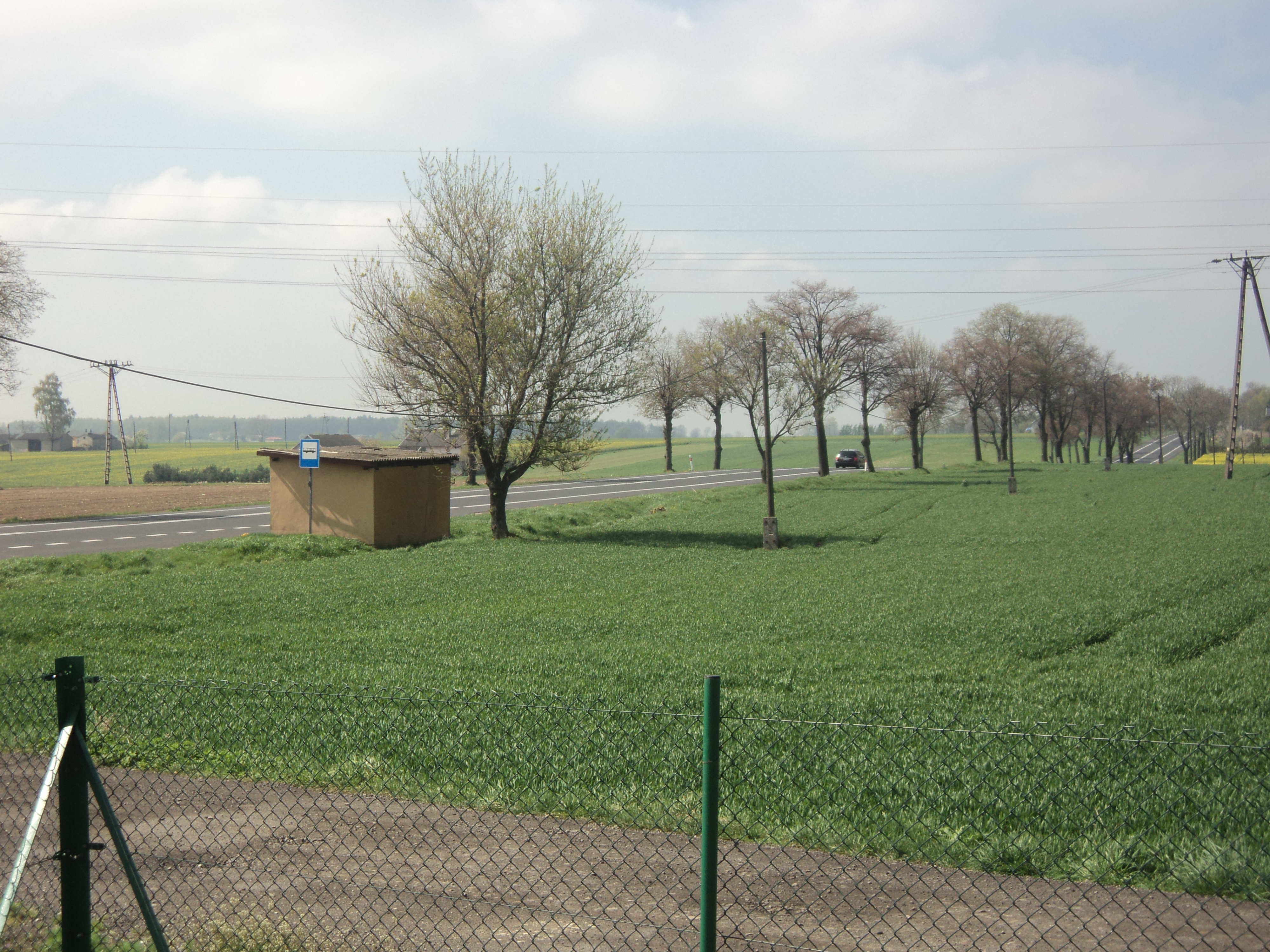 Przystanek Stara Kłodawa